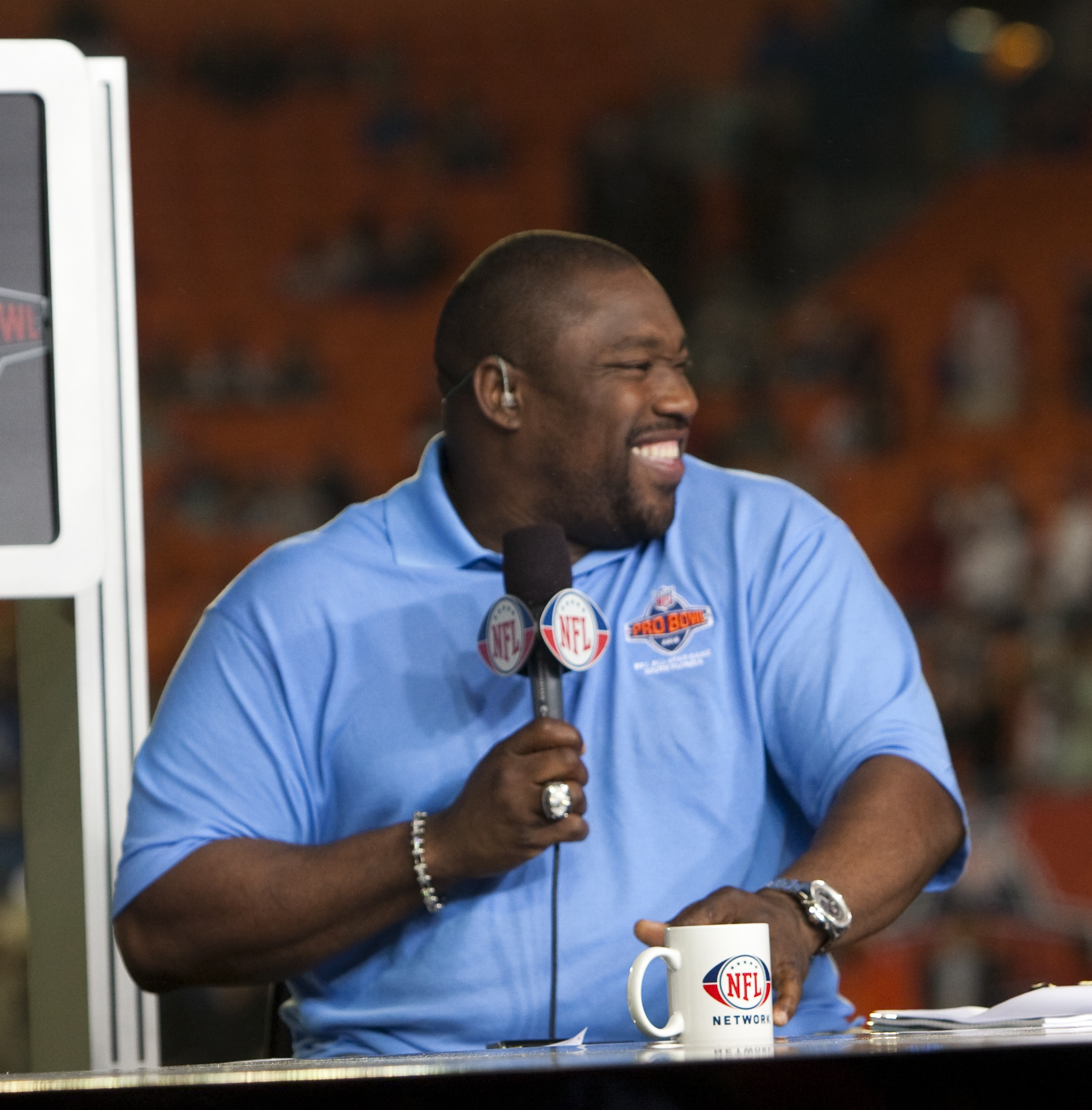 Warren Sapp on NFL Network at the Pro Bowl 2010